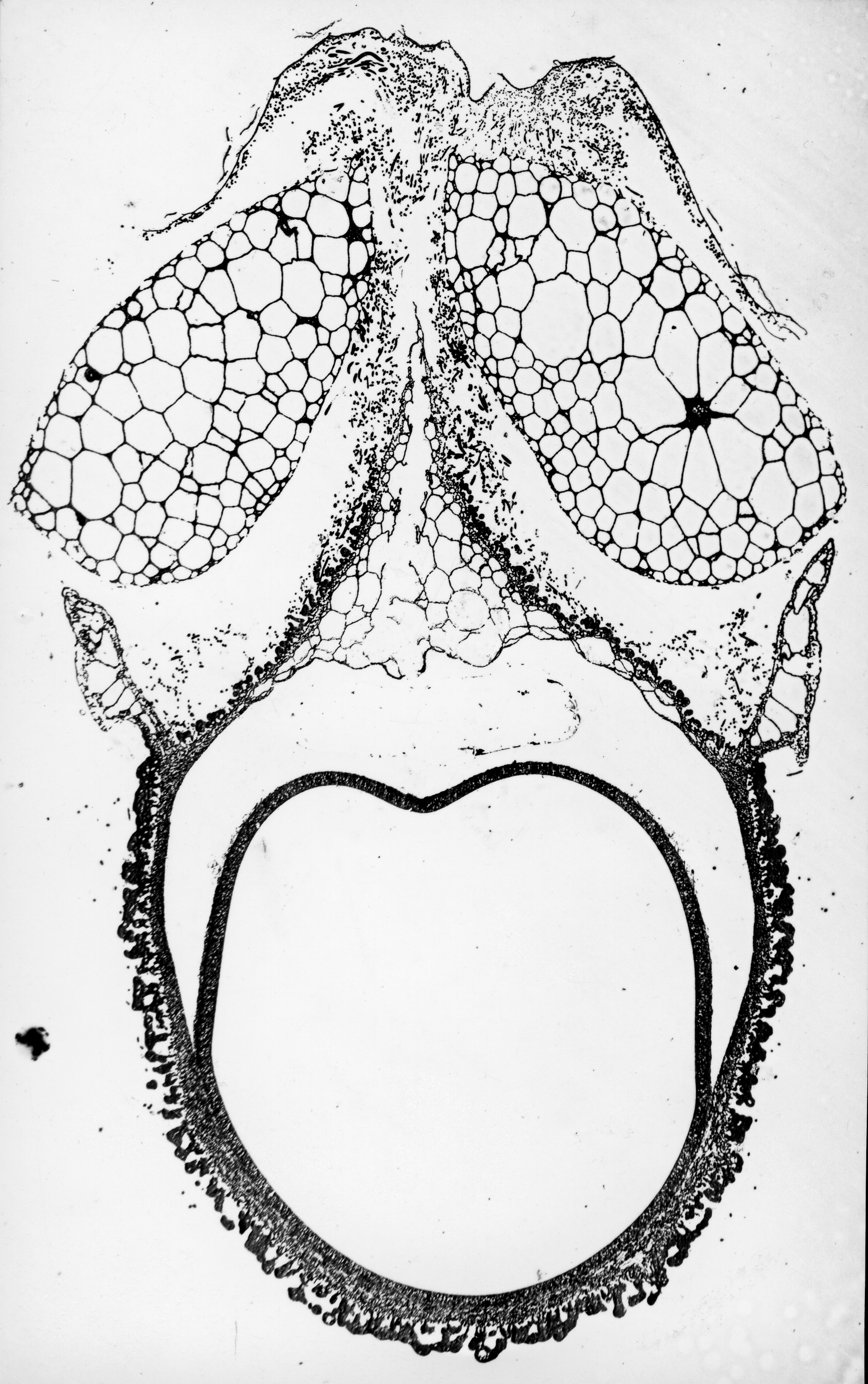 Transmission Electron Micrograph (TEM) of a megaspore of the genus Azolla from Postglacial sediments of Laguna El Junco, Galápagos Island of San Cristobal. Longitudinal section 1, original size = 0.52 x 0.33 mm (Masterly preparation by Wolfgang Mackowiak, University at Cologne, Germany).